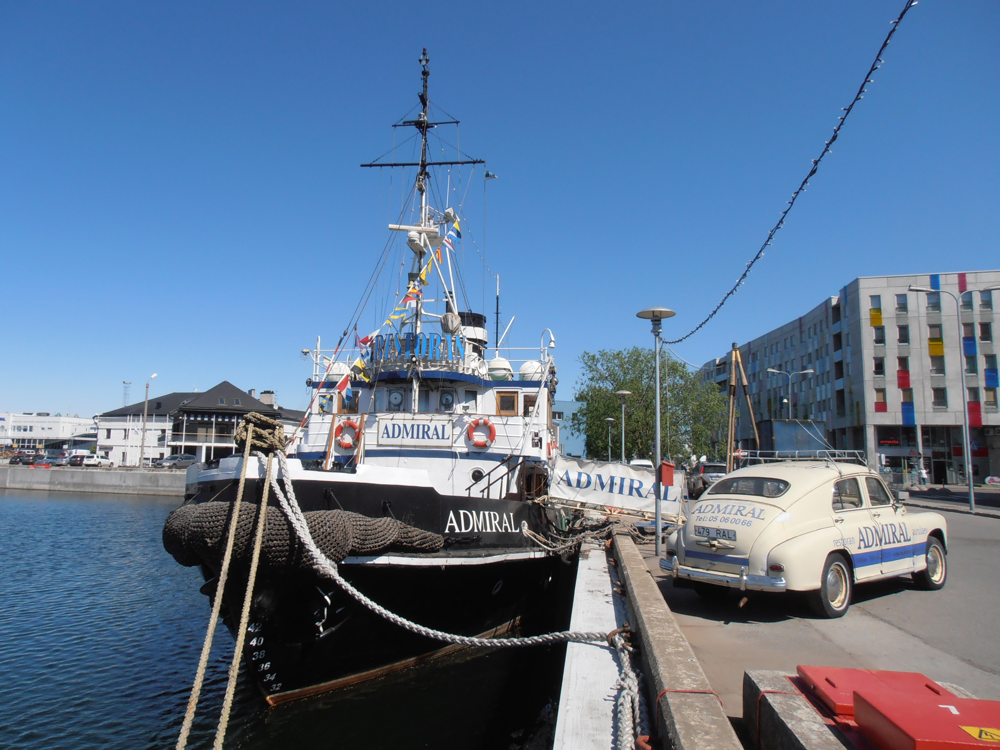 SS Admiral and Pobeda GAZ-M20 in Tallinn 29 May 2012